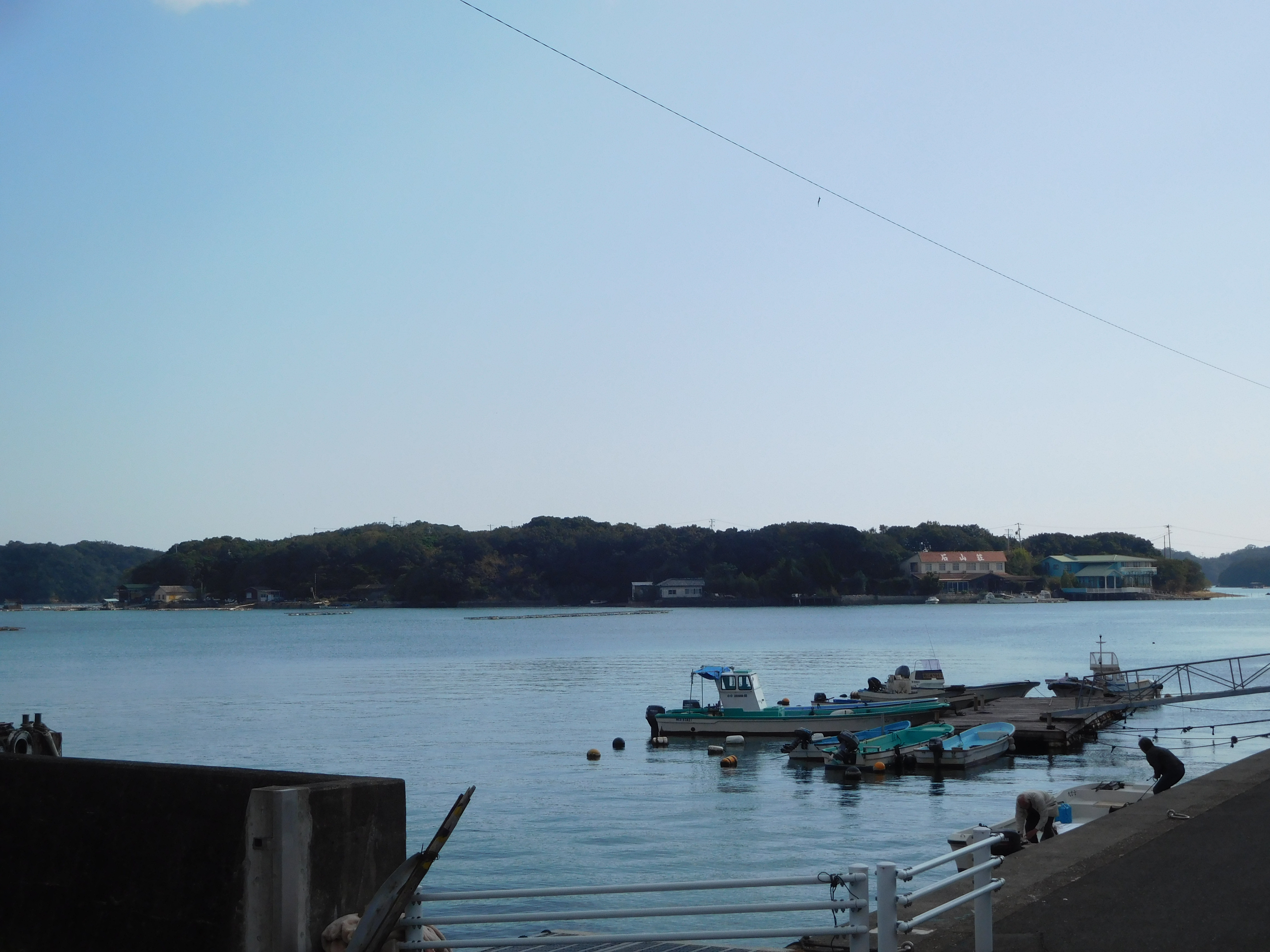 This is Yokoyama Island in Shima, Mie, Japan. This photo was taken from Kashikojima.